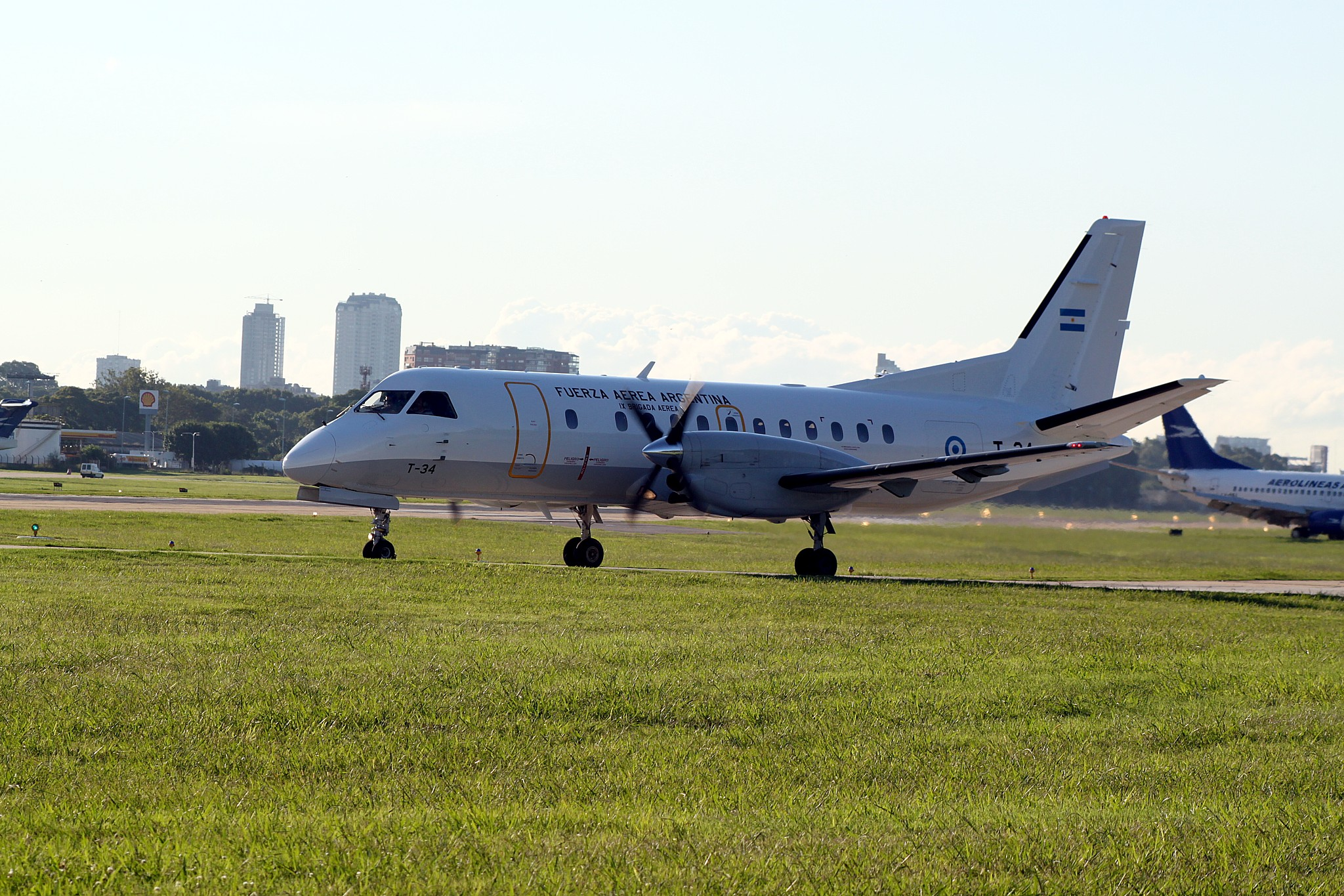 Argentine Air Force aircraft Saab 340 T-34 at Aeroparque Jorge Newbery Airport